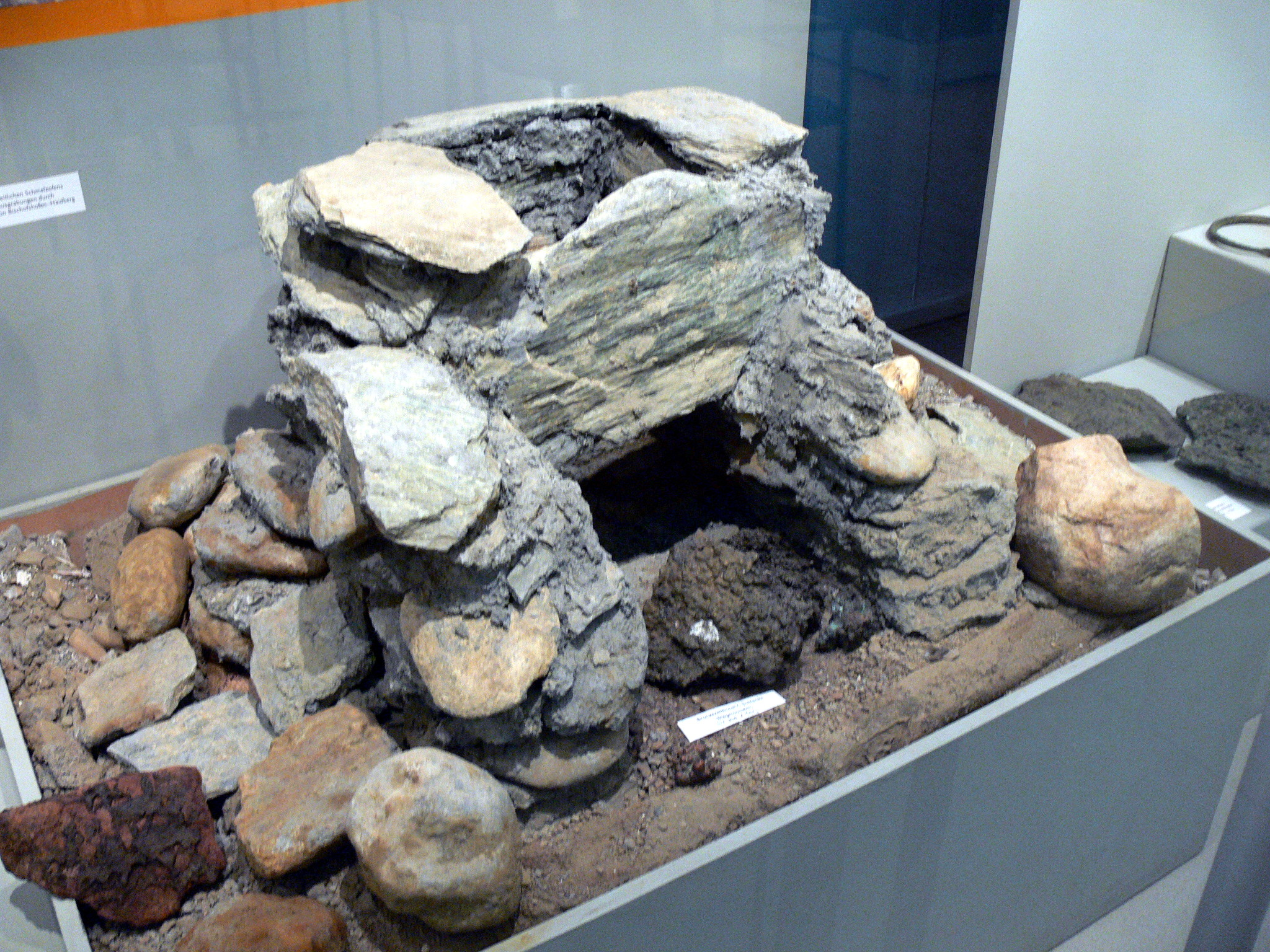 Museum im Kastenturm, Bischofshofen ( Salzburg ). Reconstruction of a bronze age furnace.